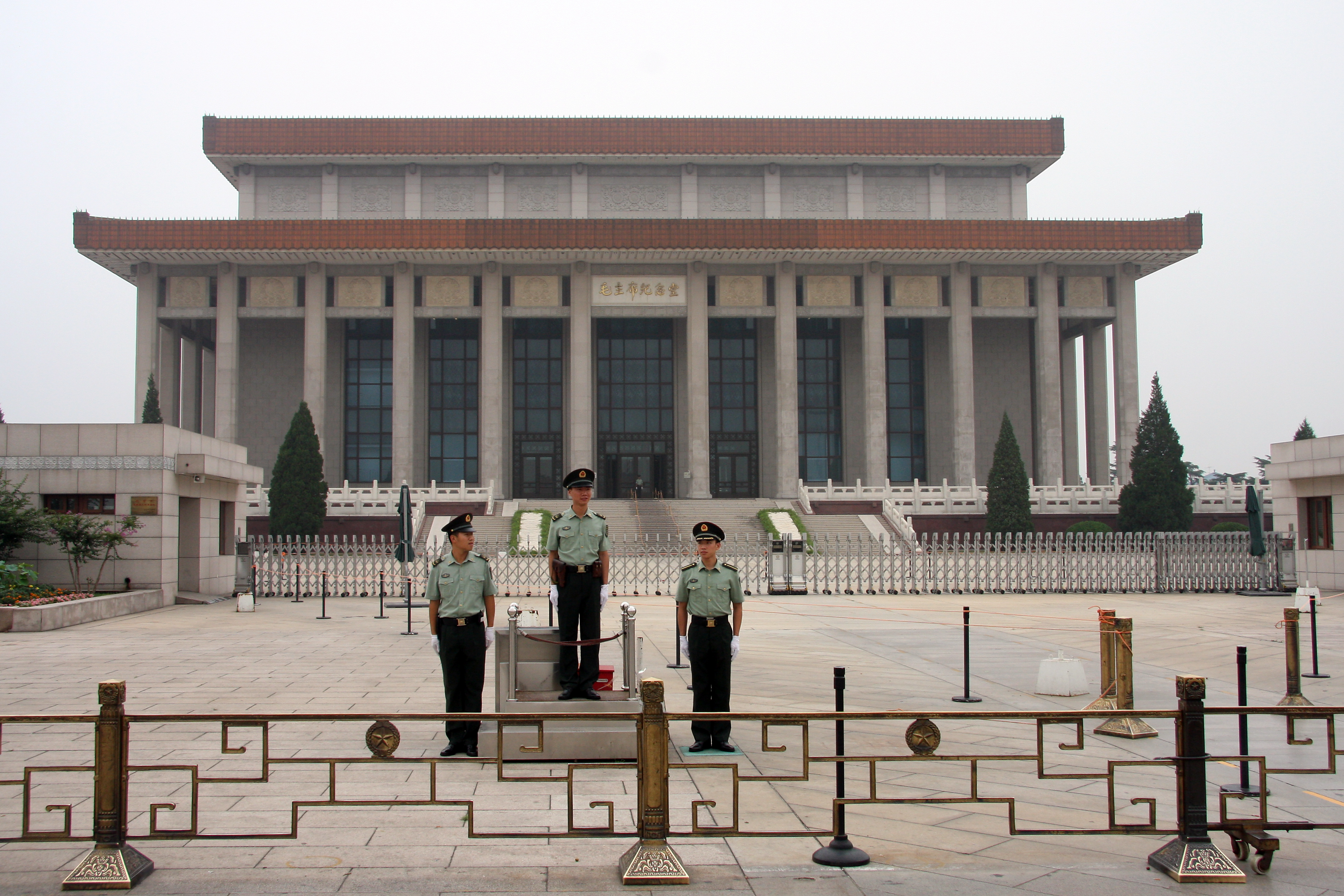 The mausoleum of Mao Zedong on the Square of Heavenly Peace in Beijing.